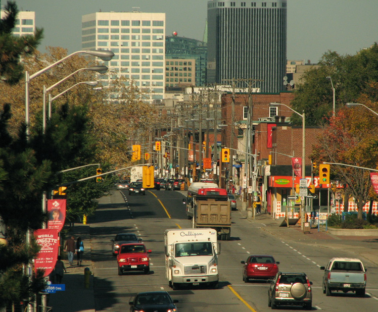 My own pictures